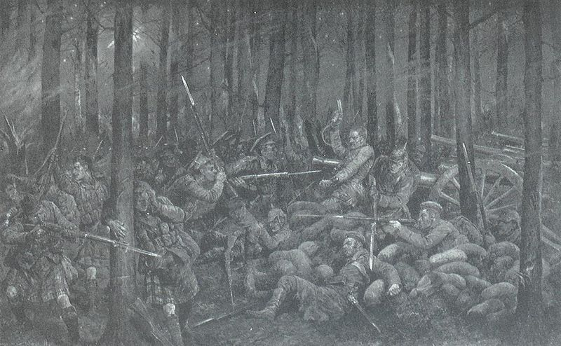 Battle scene